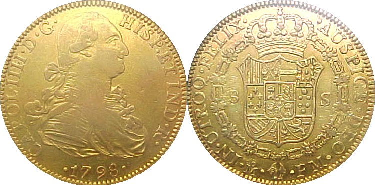 Spanish doubloon of king Carlos IV stamped as minted in Mexico city mint in 1798